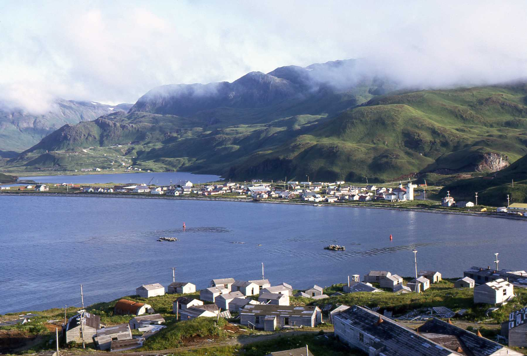 United States of America, Alaska, Unalaska view in 1972 with the collapsed buildings, of the closed Dutch Harbor Naval Base, in the foreground.